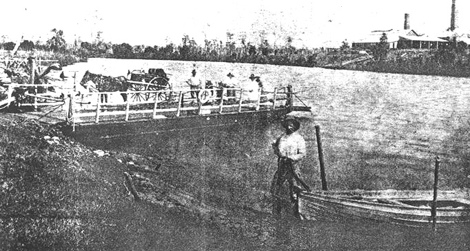 The Loganholme Ferry on the main road to Brisbane. 1890 circa.